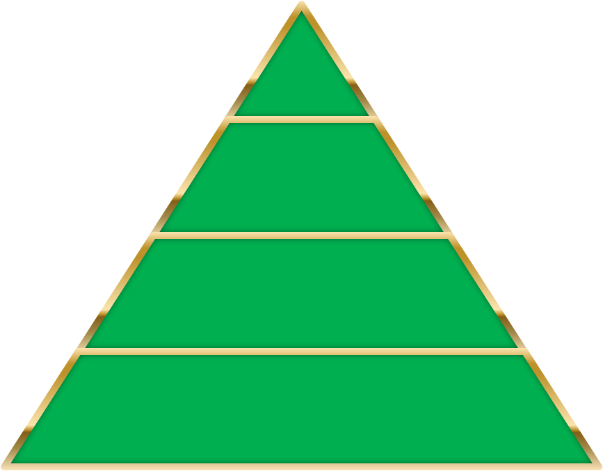 Symbol